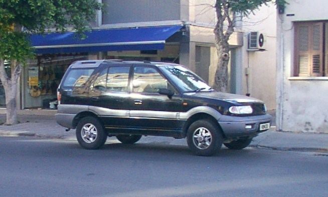 Tata Safari seen driving on the road